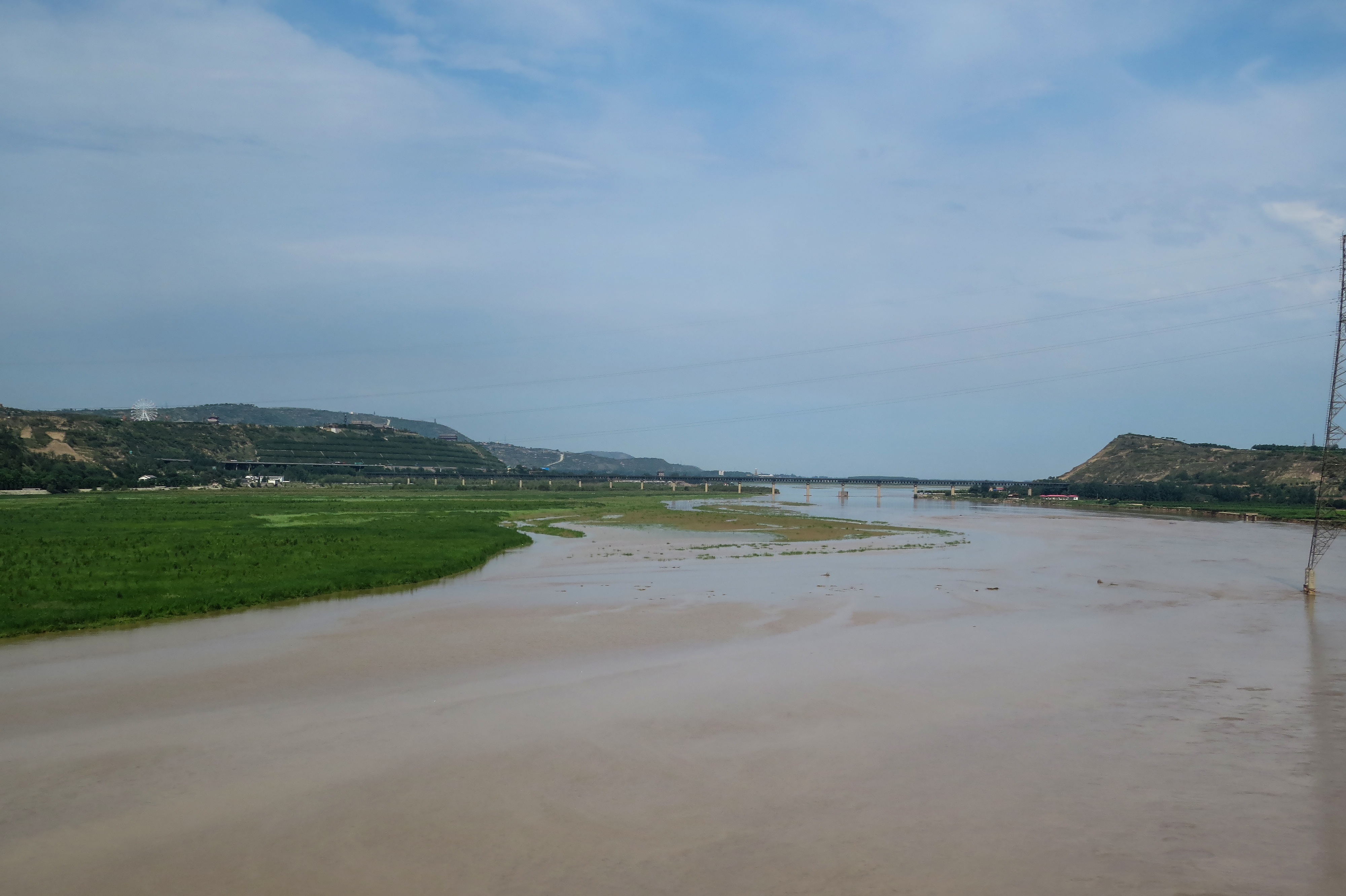 Taken on the Fenglingdu Yellow River Road Bridge (from a bus).